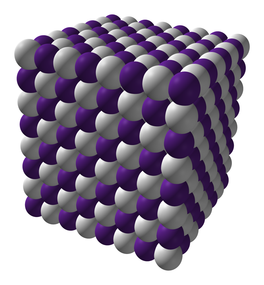 Space-filling model of part of the crystal structure of caesium hydride, CsH. Structural data from Acta Cryst. 1991, C47, 1956-1957.